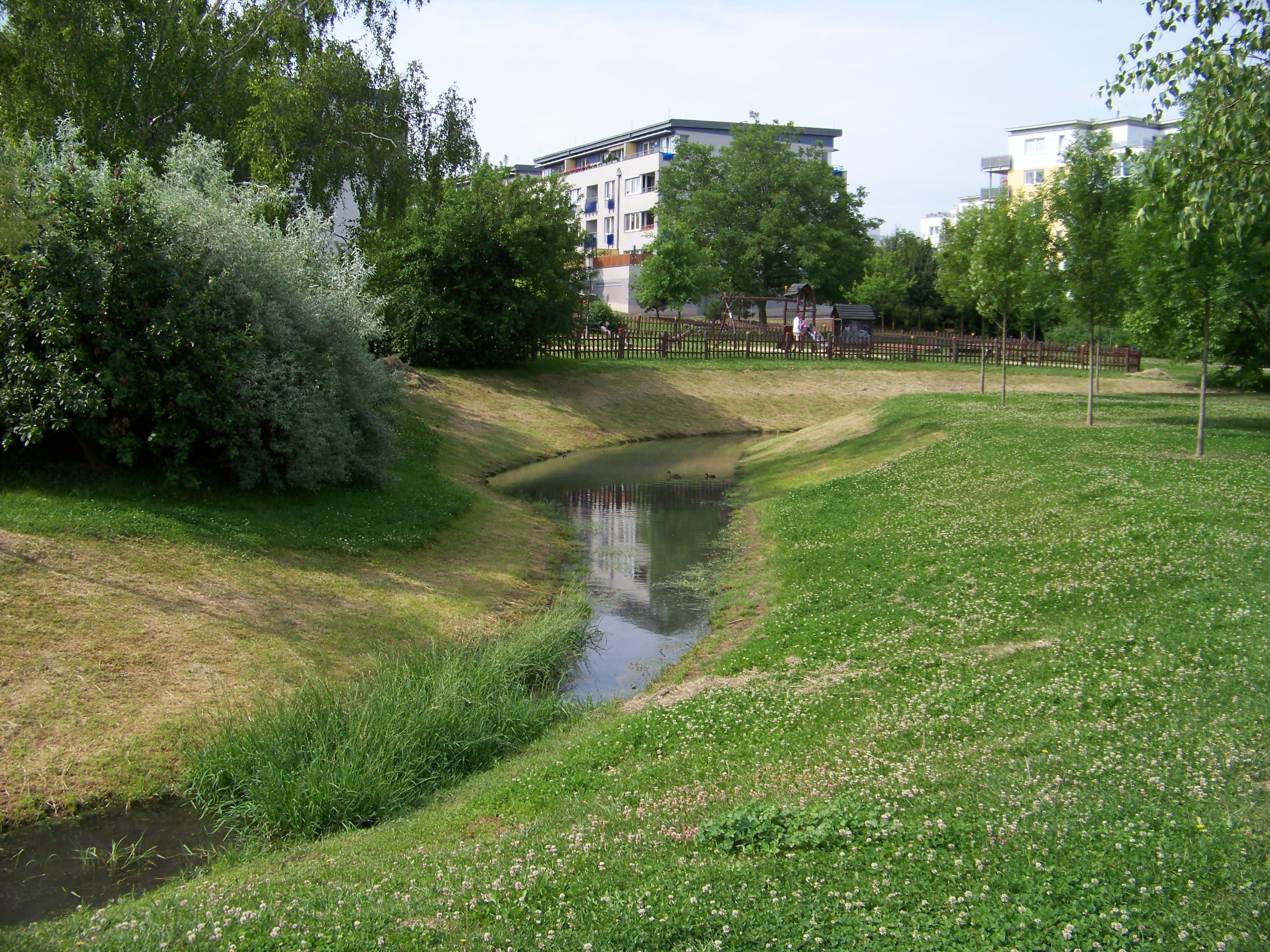 Prague-Kbely, Czech Republic. Central Park, a creek.